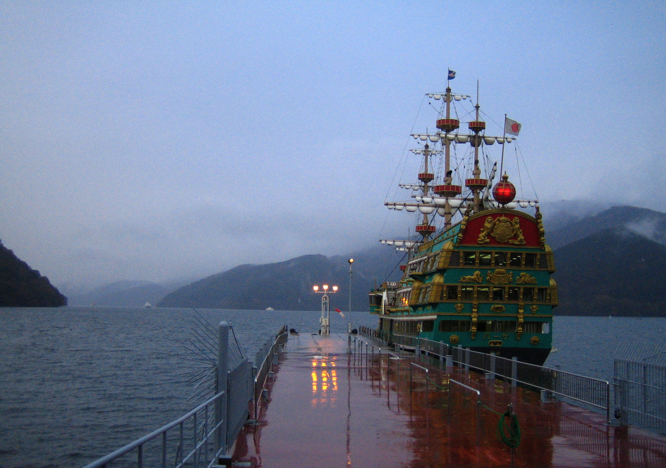 They have a whole bunch of these big plastic pleasure boats. Ours was a model of the Vasa